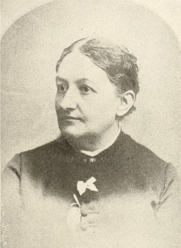 Photographic portrait of American reformer Sarepta M. I. Henry (1839–1900). From American Women: Fifteen Hundred Biographies with Over 1,400 Portraits, Frances E. Willard and Mary A. Livermore, editors. Mast, Crowell & Kirkpatrick, 1897 (revised edition from 1893), p. 373